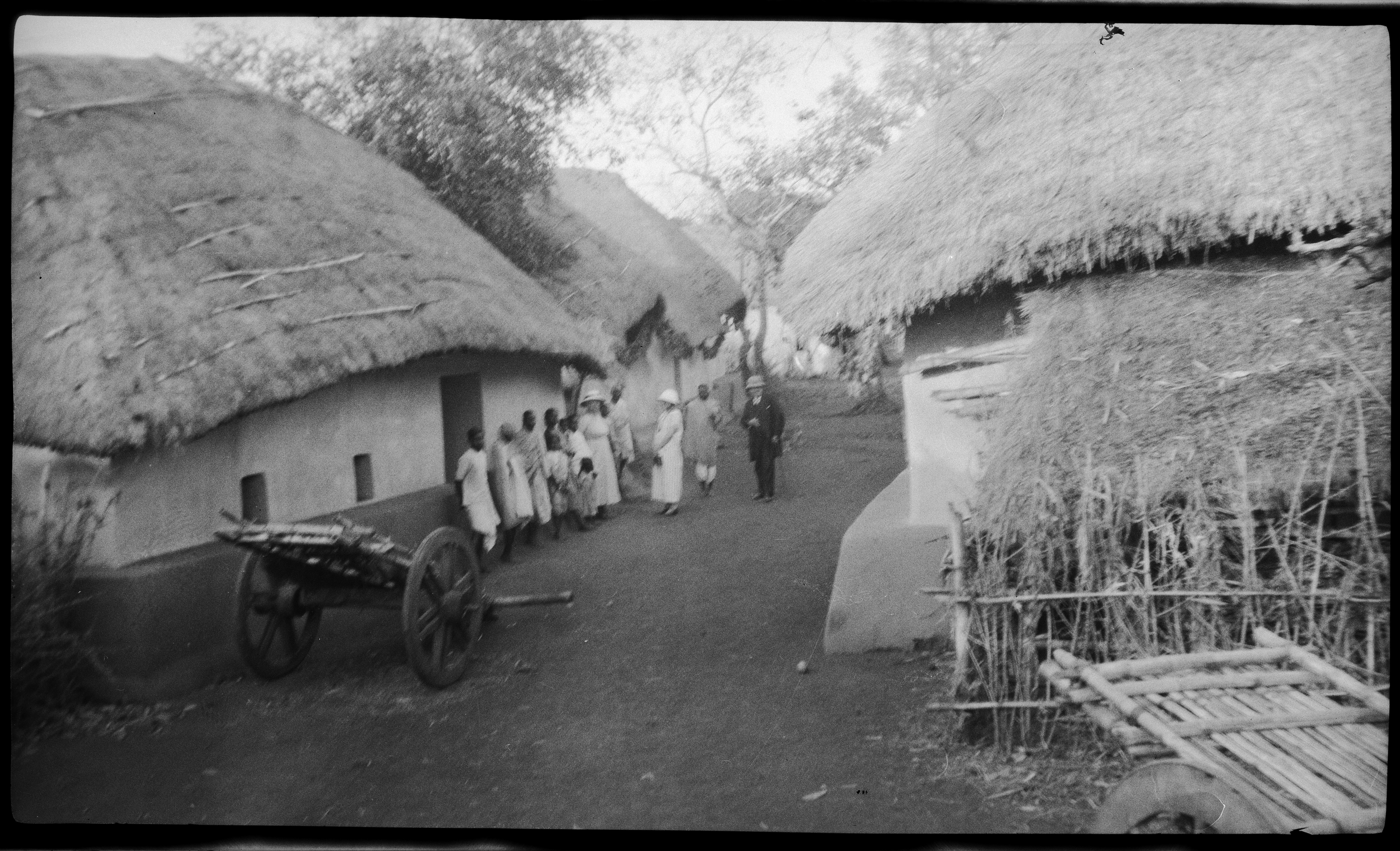 Santal Parganas, West-Bengal, India Village street in Benagaria. Between the huts missionary M.A. Pederson and his wife.